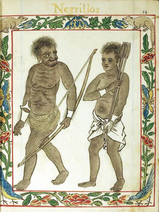 Negritos of the Pre-hispanic Philippine Archipelago